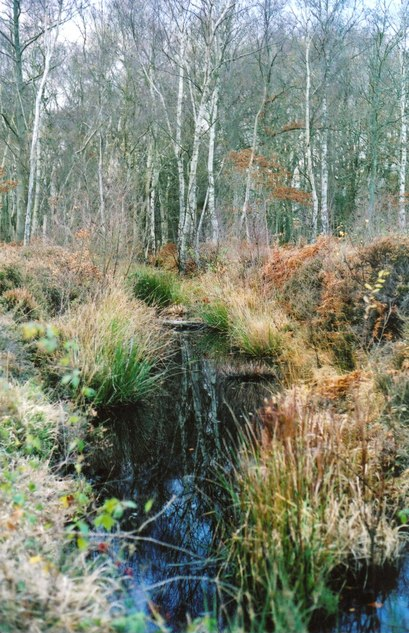 Black Ditch, Snelsmore Common